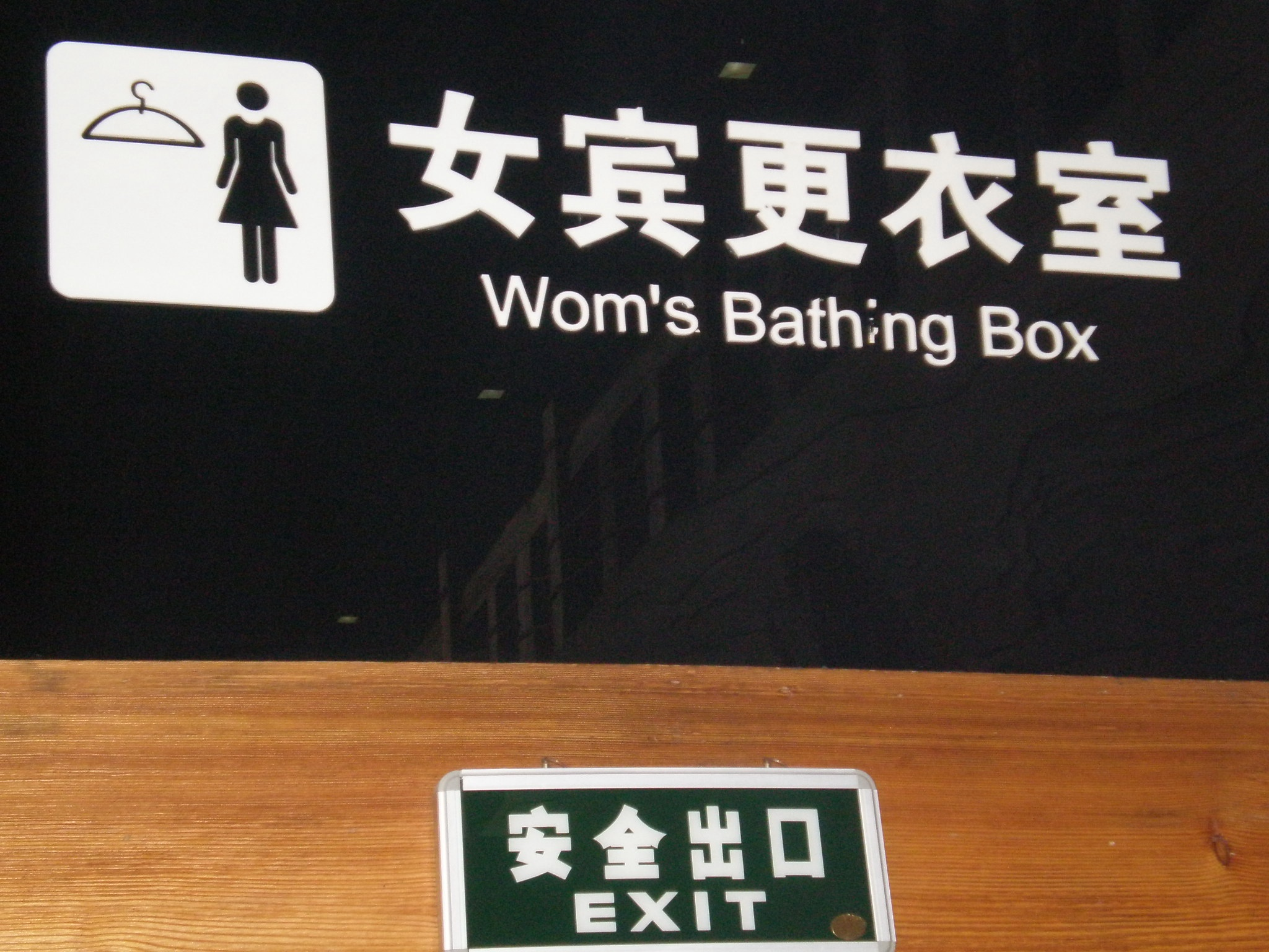 Sign in China -- Women's bathing box